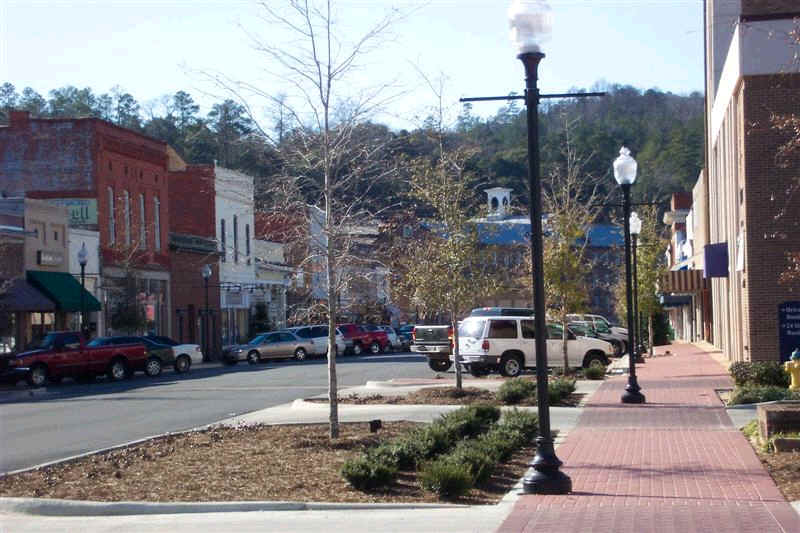 A photo of downtown Prattville, AL